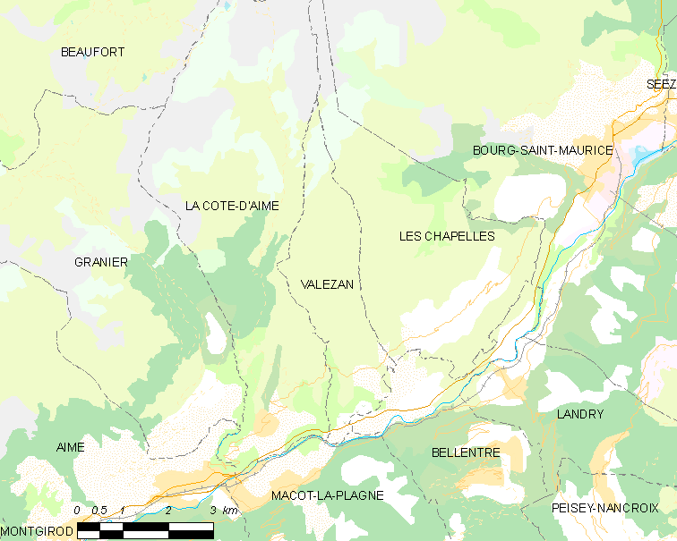 Map of French municipality Valezan